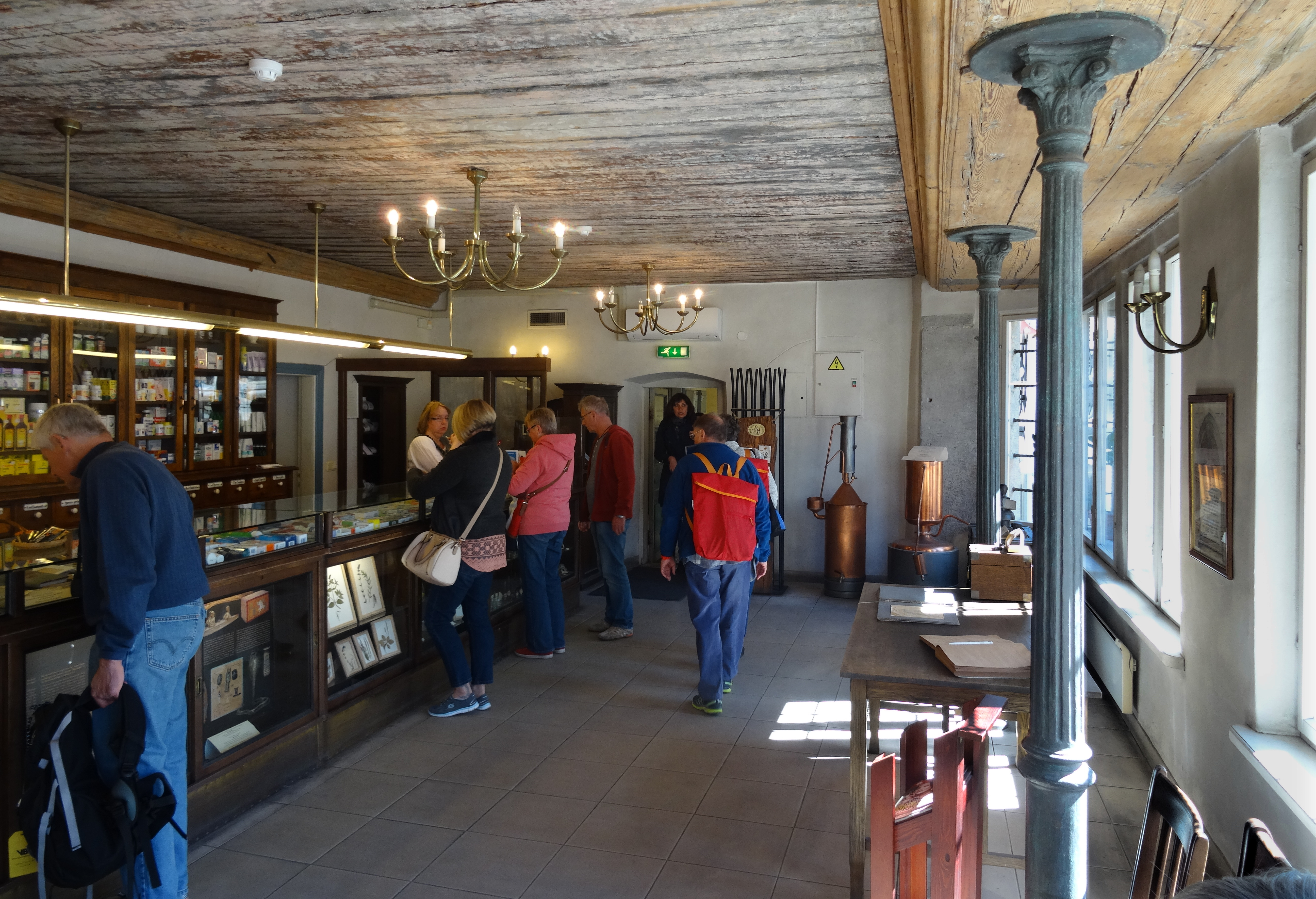 Inside of the Ratsapotheke in Tallinn